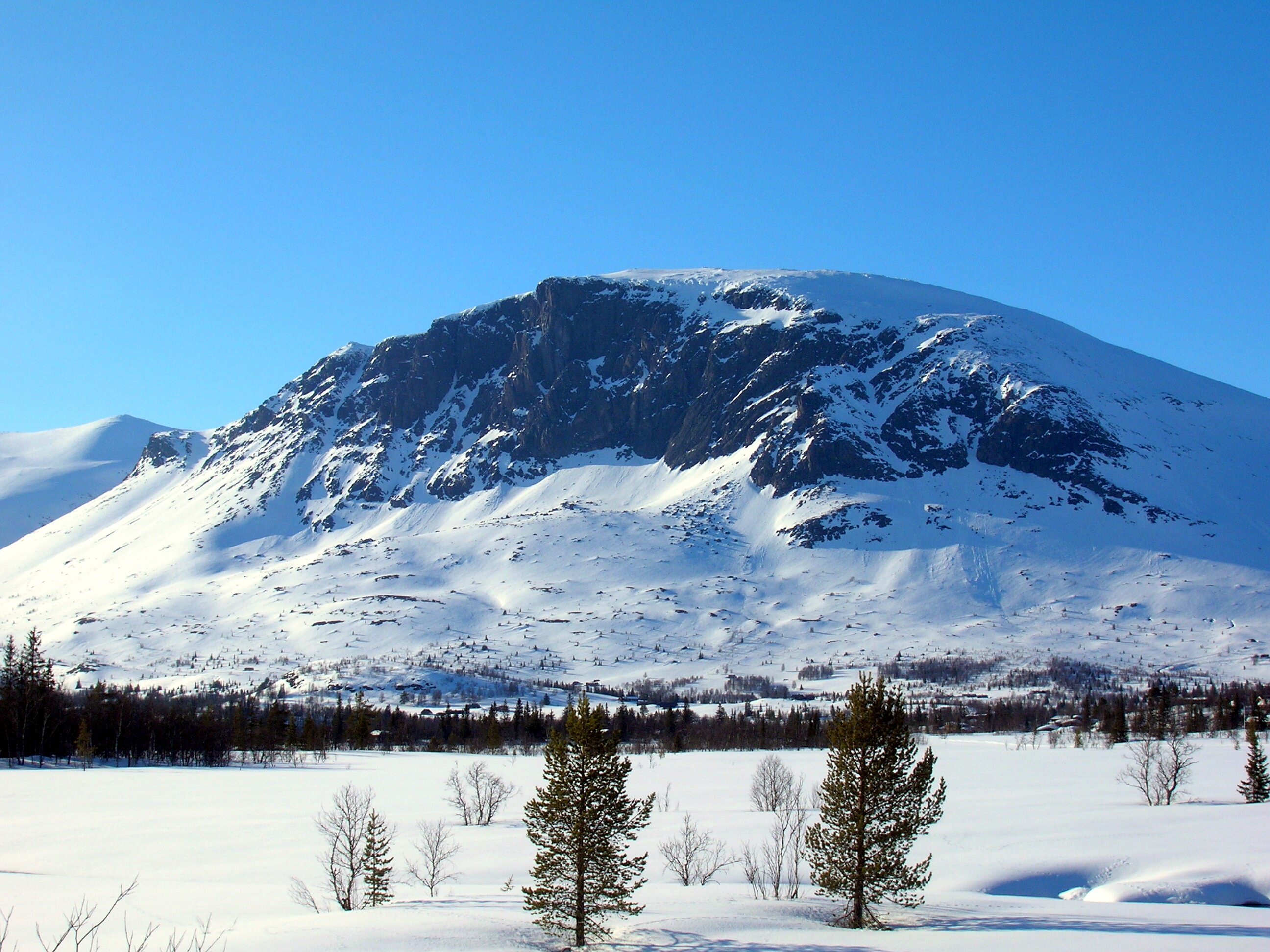 The norwegian mountain Skogshorn, in the municipality of Hemsedal. The picture is taken from south.